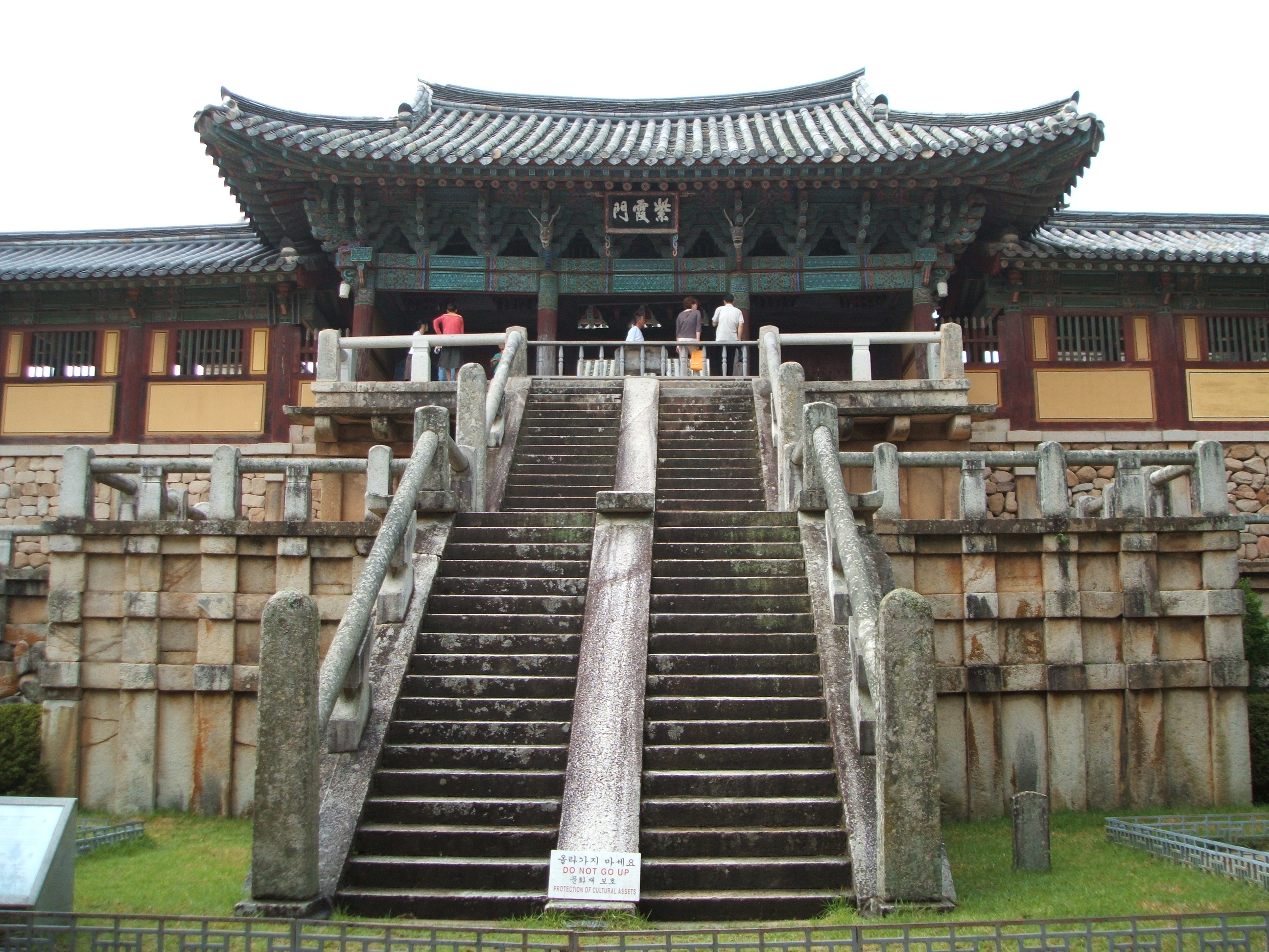 Outside entrance stairs, Bulguksa temple, a head temple of the Jogye Order of Korean Buddhism in the North Gyeongsang province, South Korea.